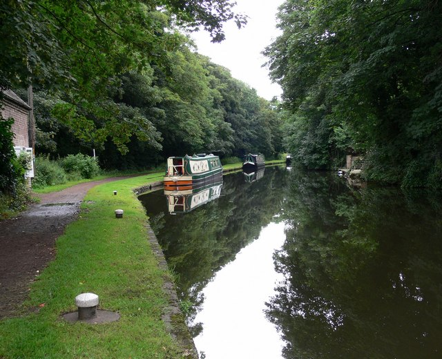 Staffordshire & Worcestershire Canal just above Wolverley Lock (tea room just visible in the left of the picture)